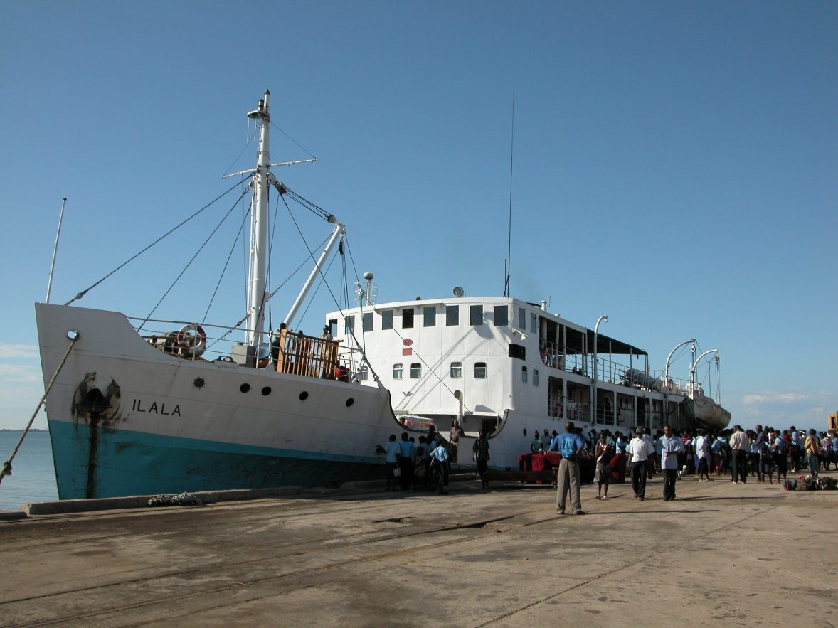 The Illala, the main transporting vessel on Lake Malawi, docked at Chipoka Port in Salima, central Malawi.